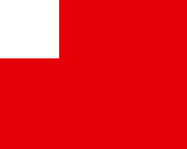 Djambi, nobility flag